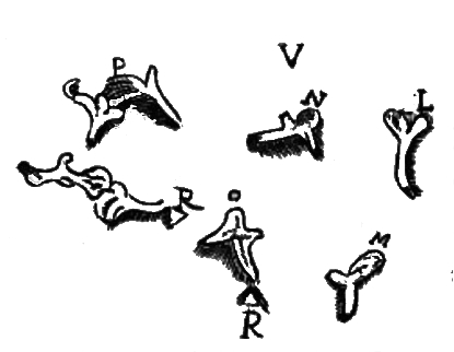 Illustration of the ear ossicles